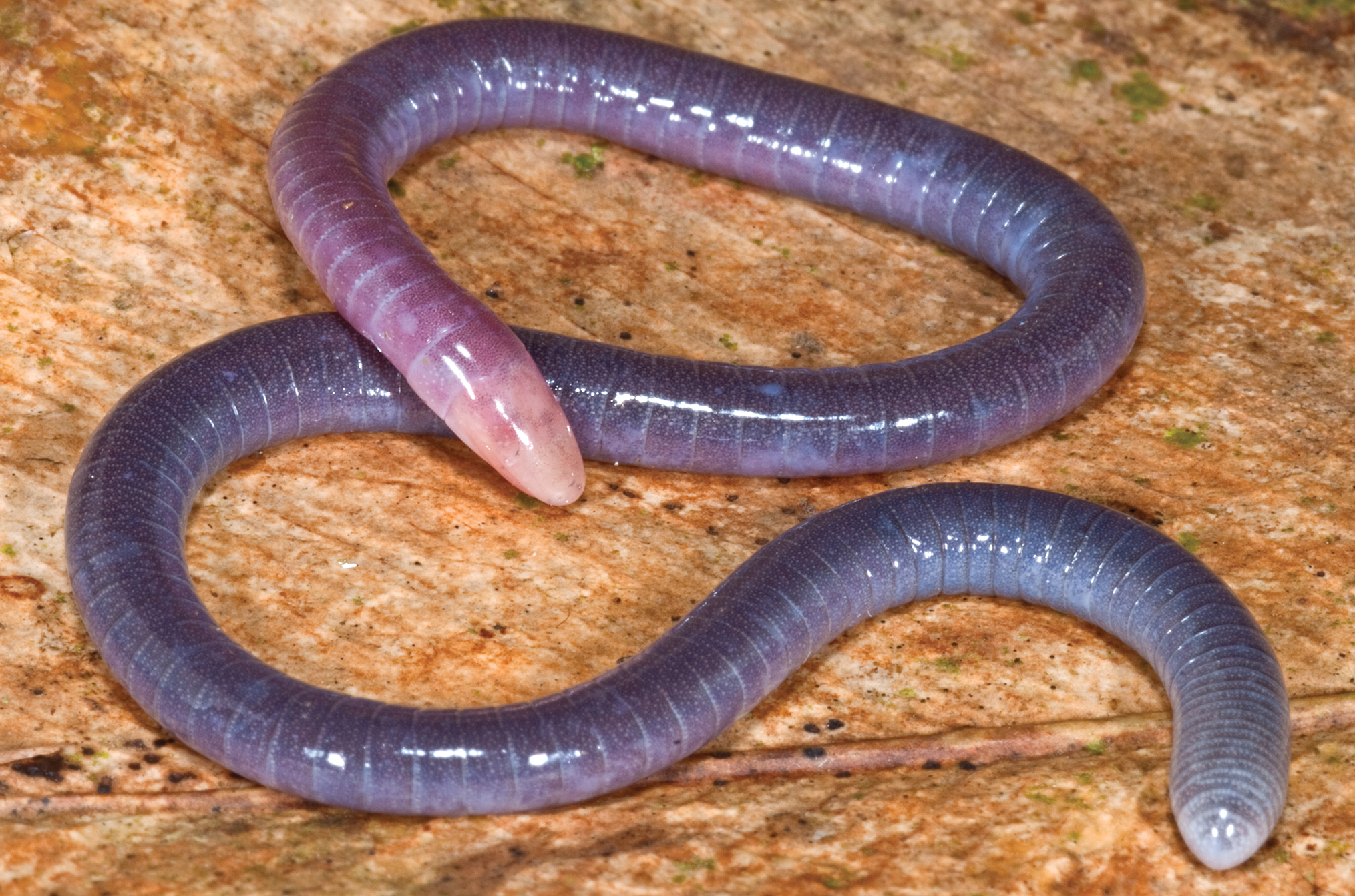 Adult Microcaecilia dermatophaga in life (BMNH 2008.721).